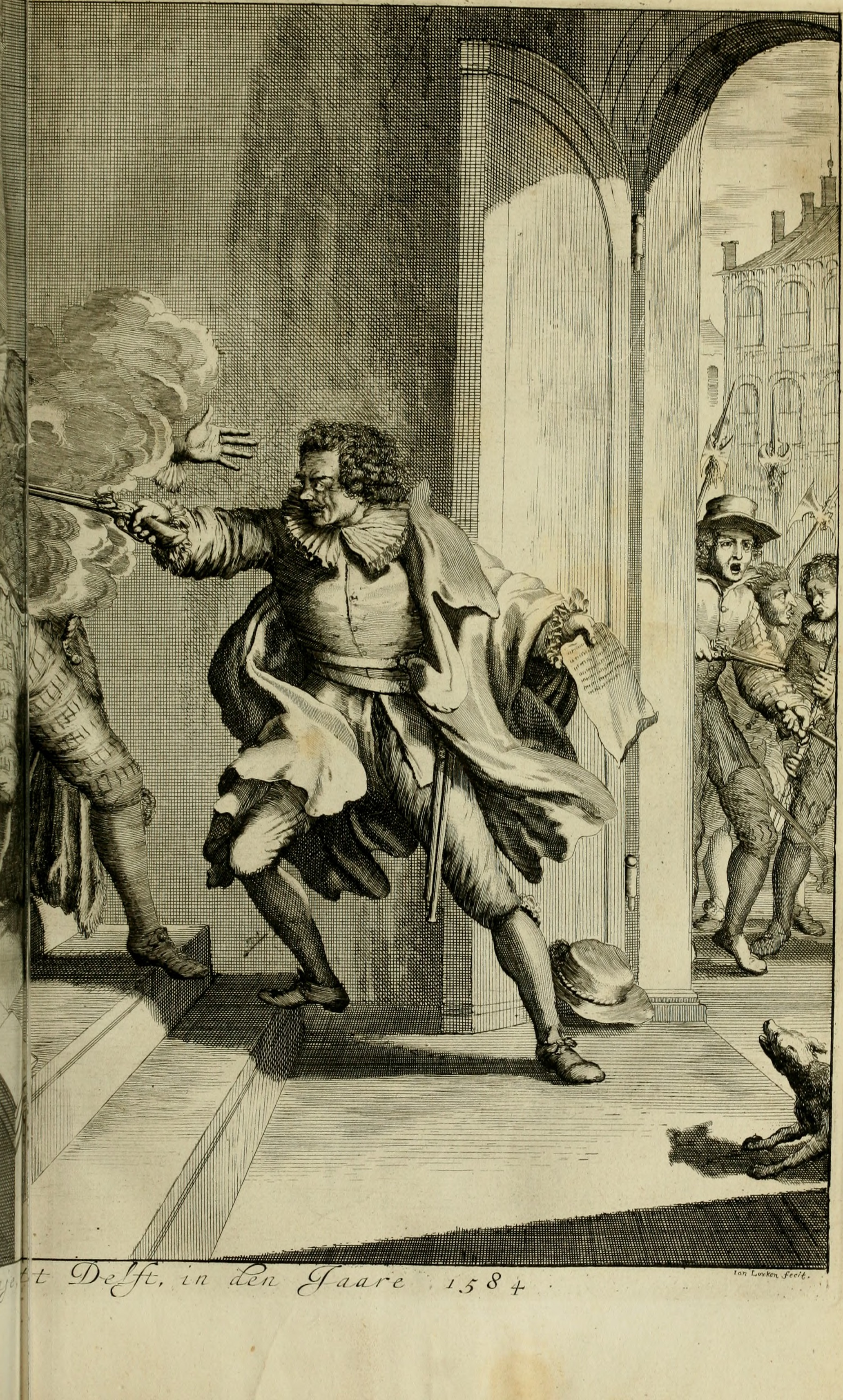 Title: Hugo de Groots Nederlandtsche jaerboeken en historien : sedert het jaer MDLV tot het jaer MDCIX : met De belegering der stadt Grol en den aenkleven des jaers MDCXXVII, als ook Het tractaet van de Batavische nu Hollandtsche Republyk, en De vrye zeevaert : met aenteeckeningen, voorts met het leven des schrijvers, twee volkomen registers, en veele koopere platen verciert Year: 1681 (1680s) Authors: Grotius, Hugo, 1583-1645 Grotius, Hugo, 1583-1645. De antiquitate reipublicae Batavicae. Dutch Grotius, Hugo, 1583-1645. Mare liberum. Dutch Goris, Joannes, fl. 1681 Blooteling, Abraham, 1640-1690 Webber, Zacharias, ca. 1644-1696 Wenne, Abraham Meindersz. van der, ca. 1656-1693? Miereveld, Michiel van, 1567-1641 Vaillant, André, ca. 1655-1693 Luiken, Jan, 1649-1712 Decker, Cornelis Gerritsz., ca. 1620-1678 Hooghe, Romeyn de, 1645-1708 Gouwen, Gilliam van der Weduwe van Joannes van Someren, fl. 1678-1700 Wolfgang, Abraham, fl. 1658-1694 Boom, Hendrick, 1644-1709 Boom, Dirk, 1646?-1680 Subjects: Grotius, Hugo, 1583-1645 Publisher: t' Amsterdam : By de weduwe van Joannes van Someren, Abraham Wolfgangk en Hendrik en Dirk Boom Text Appearing Before Image: ' Text Appearing After Image: '